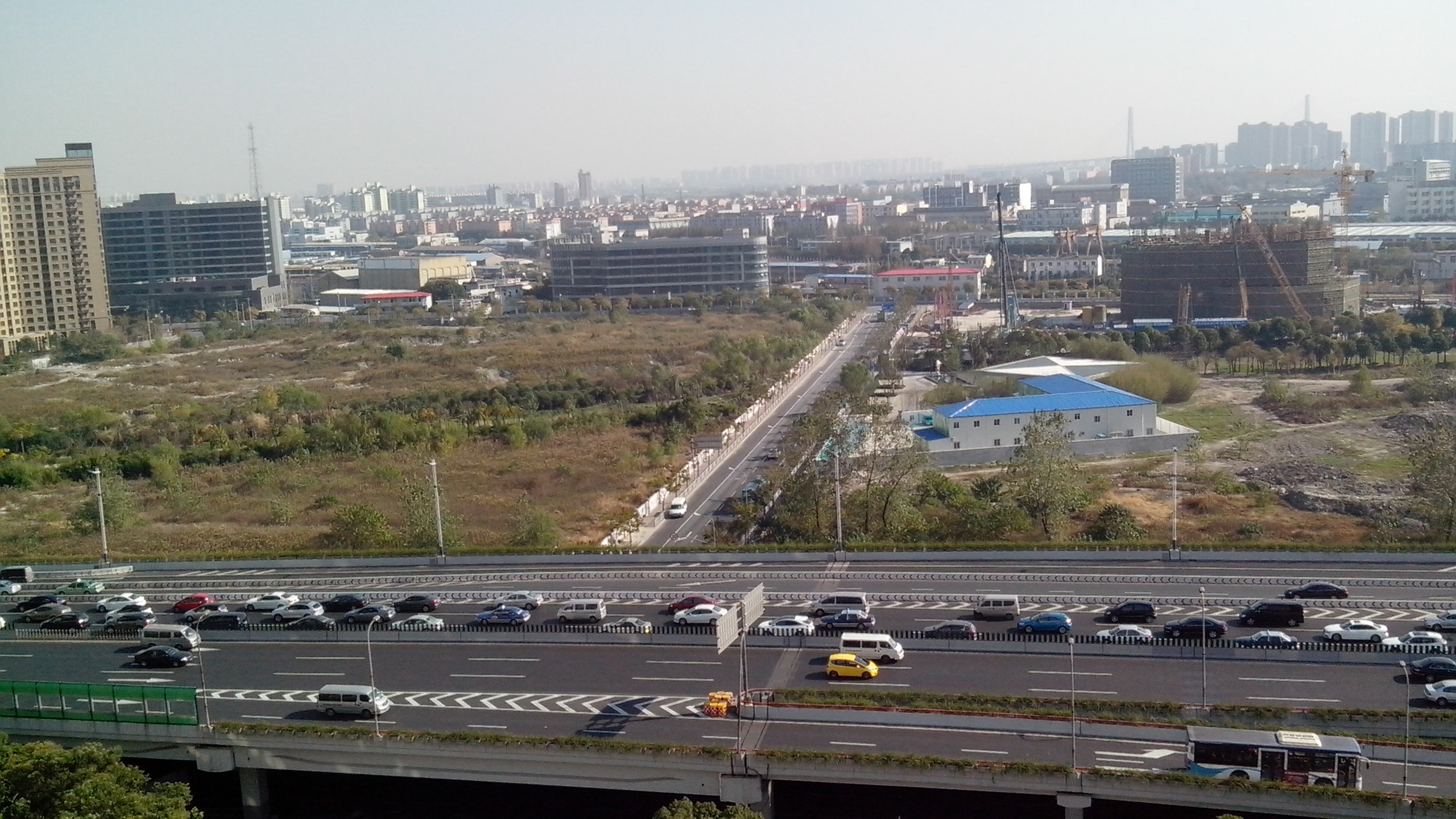 In the construction of Shanghai Vanke South Station CBD Dec. 2013